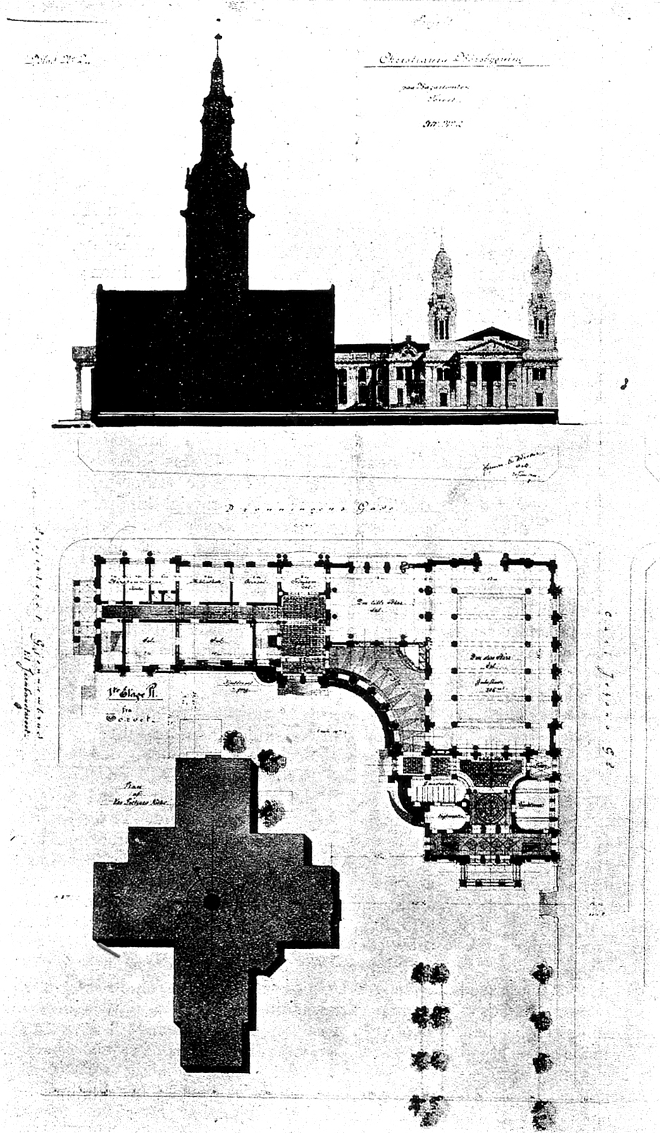 Unrealised project for a new Stock Exchange next to the Catedral of Christiania/Oslo. Herman Major Backer, architect, 1901.